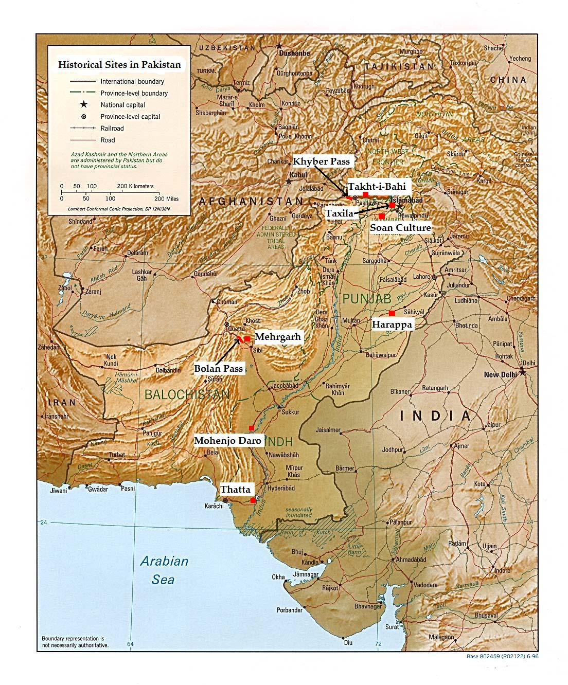 This is an annotated version of a relief map of Pakistan in the public domain([1]). The map was annotated by Fowler&fowler«Talk» 22:23, 10 March 2007 (UTC) and rereleased to the public domain.